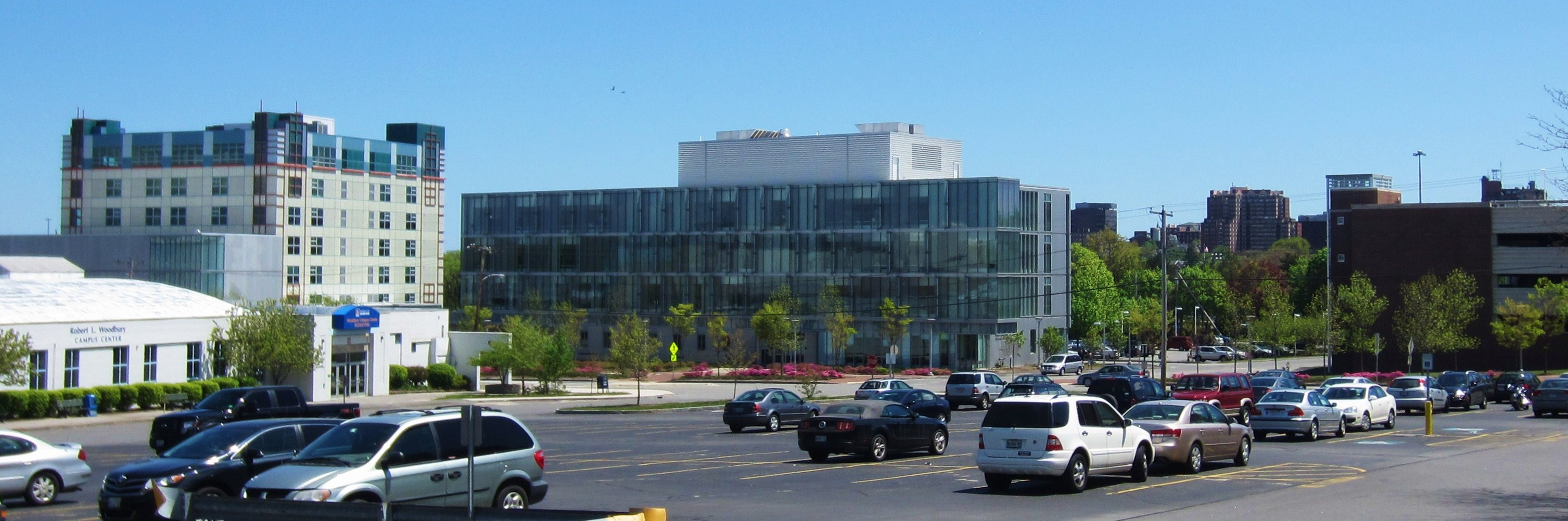 Wishcamper Center USM